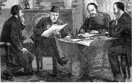 Earl Ignatiev signing Treaty of San Stefano)